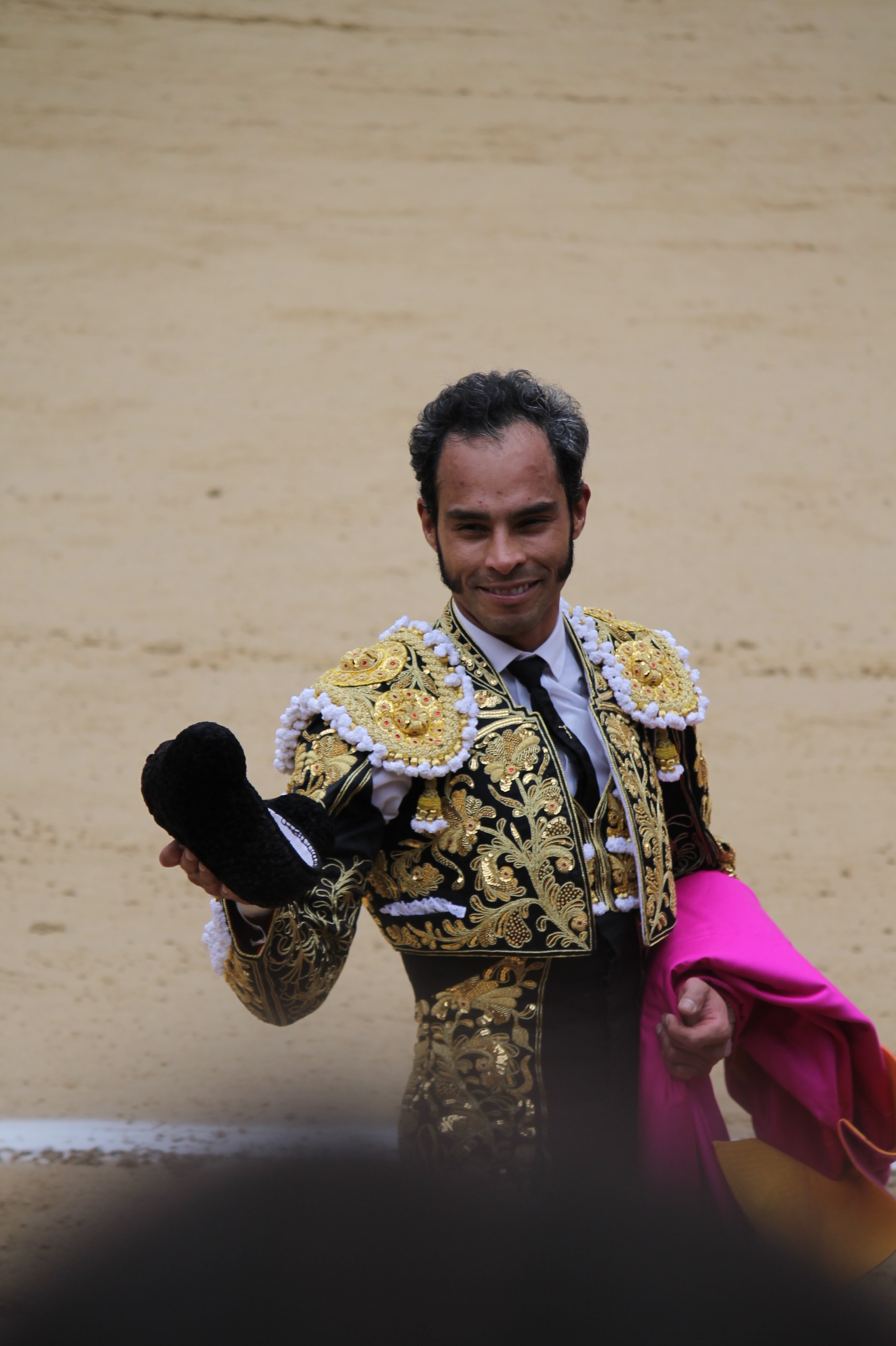 Luis Bolivar en la santa María de Bogotá